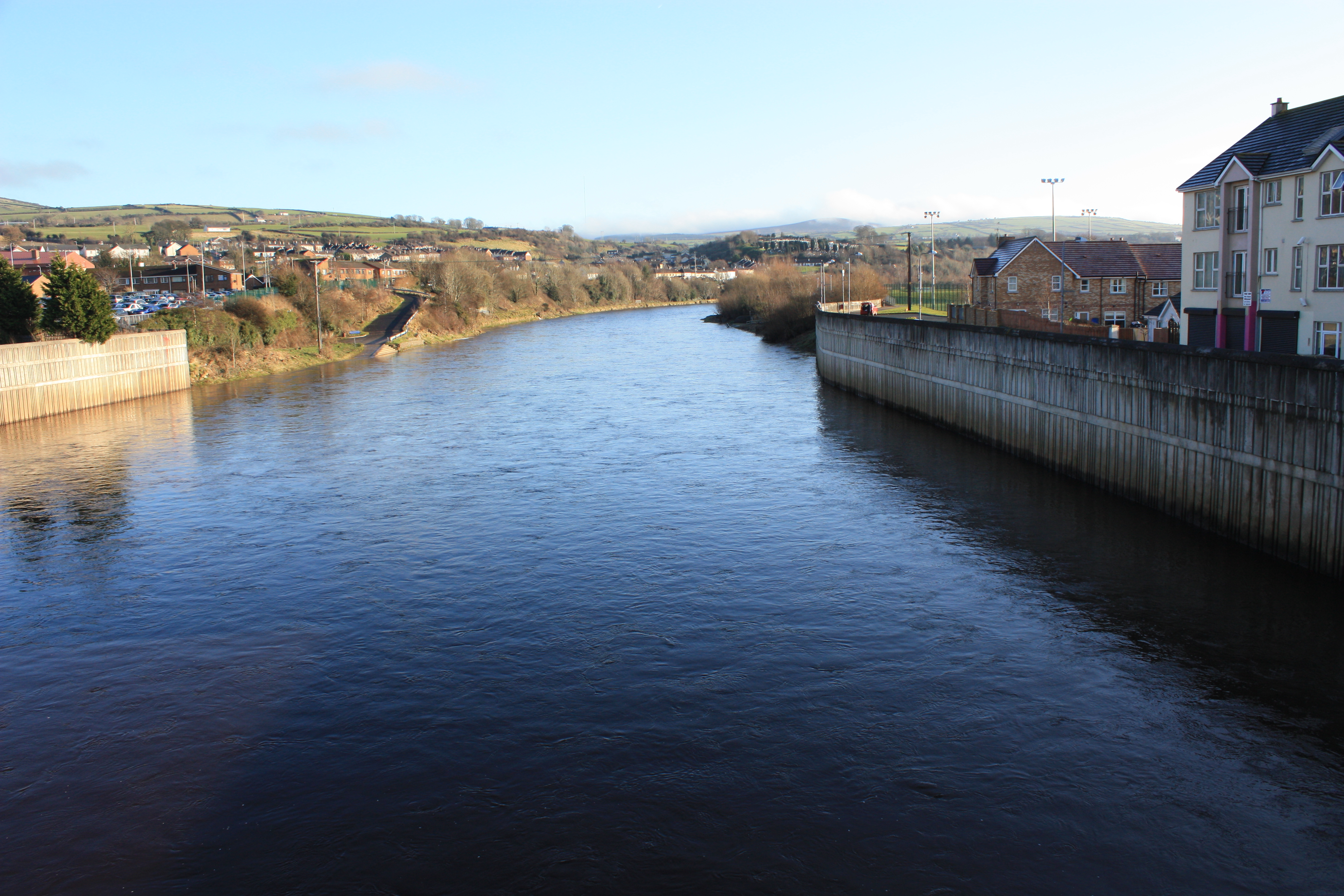 River Mourne, Strabane, County Tyrone, Northern Ireland, January 2010 (looking upstream from the Mourne River Bridge)